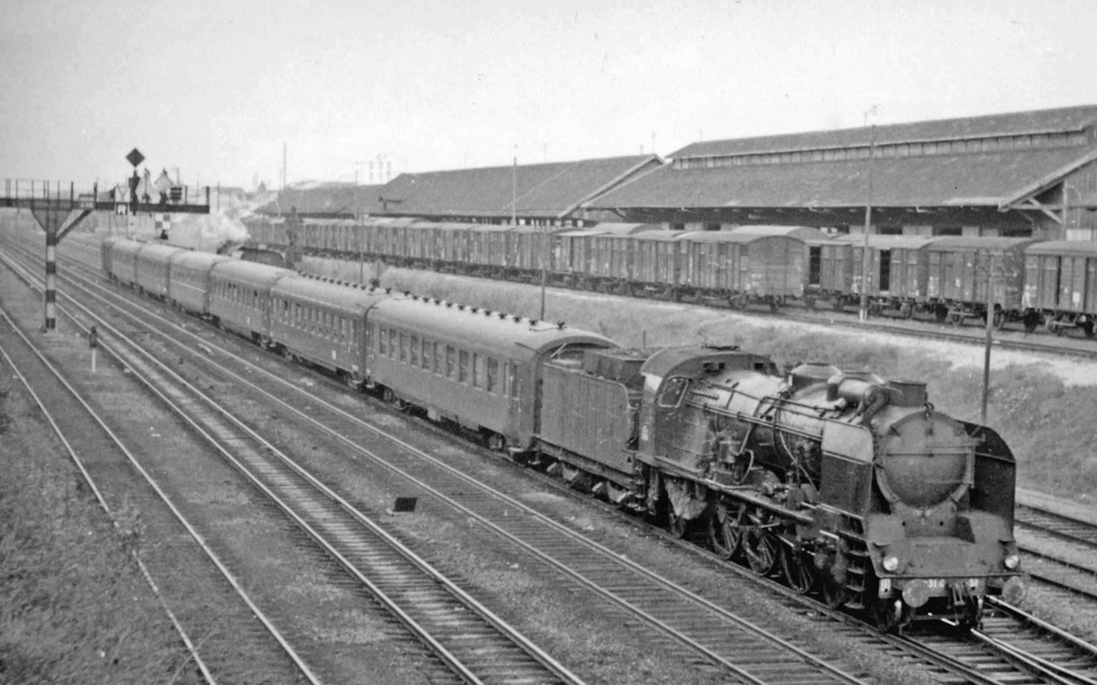 Eastbound express on the SNCF Est main line approaching Reims (Marne), headed by a PLM 4-6-2, 1958